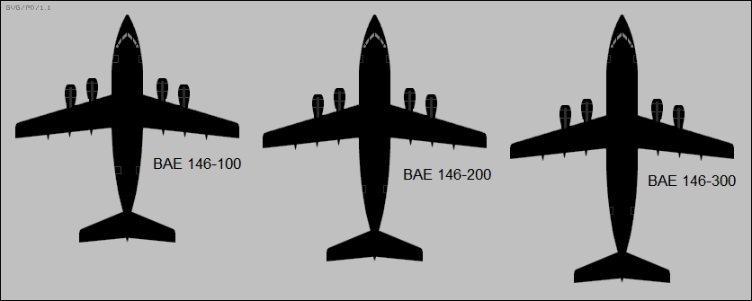 Plan-view silhouettes of BAe 146 variants